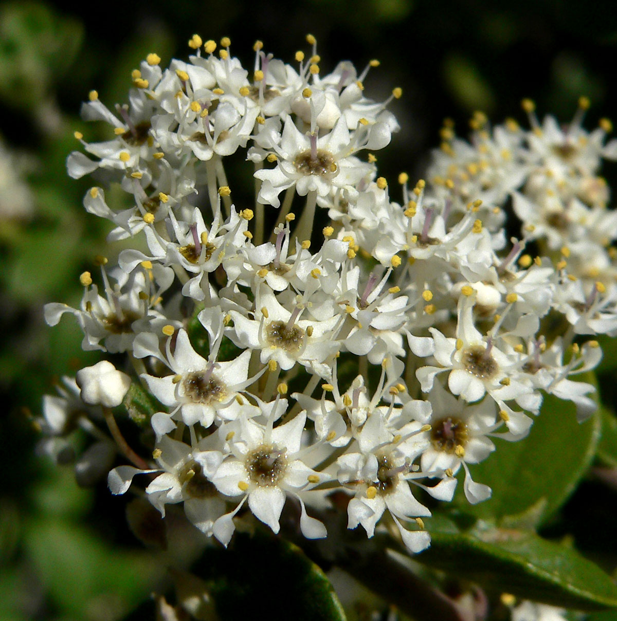 Ceanothus greggii in Lovell Canyon, Spring Mountains, southern Nevada